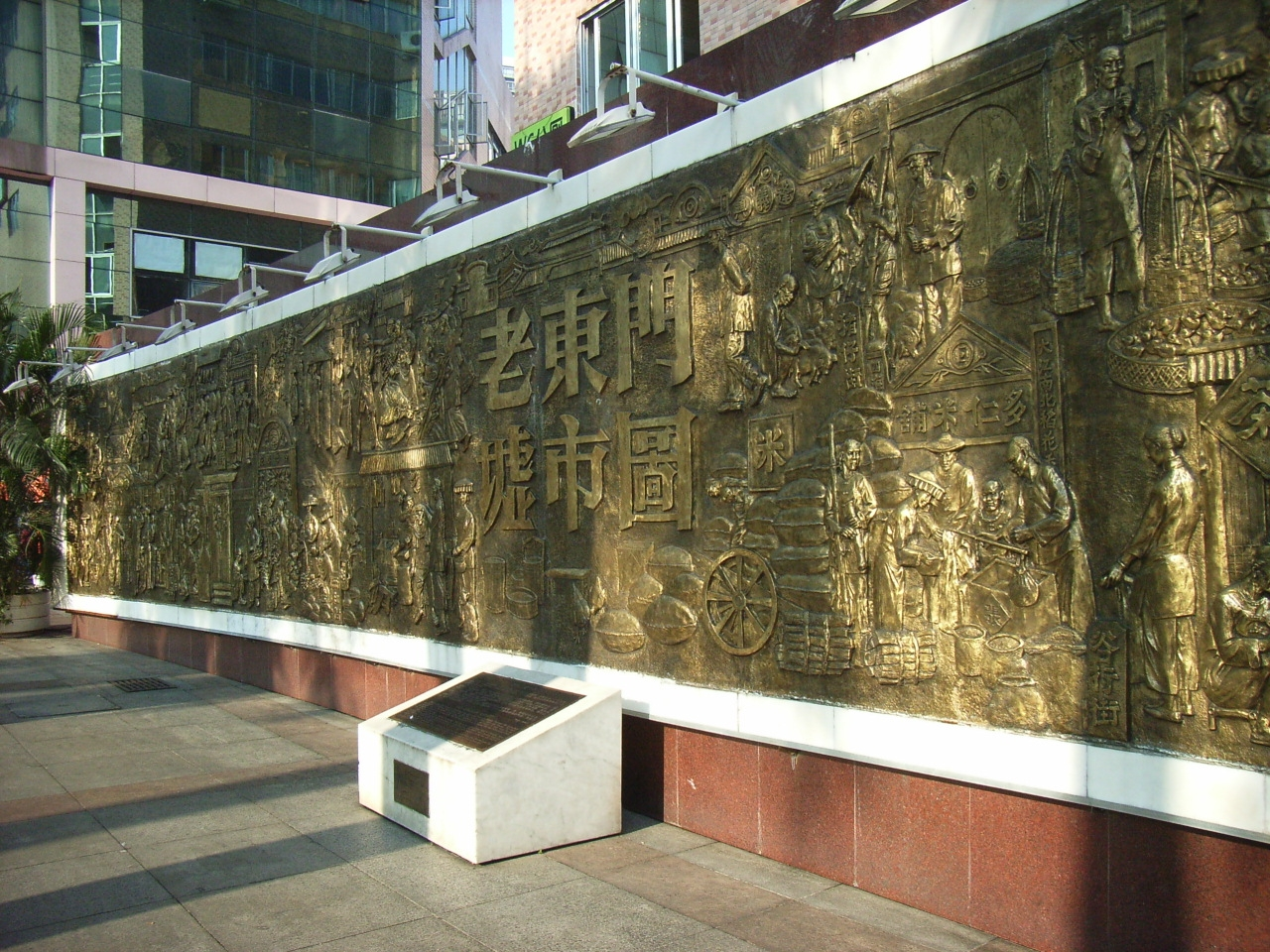 Shenzhen, China (Author is SAMZ).